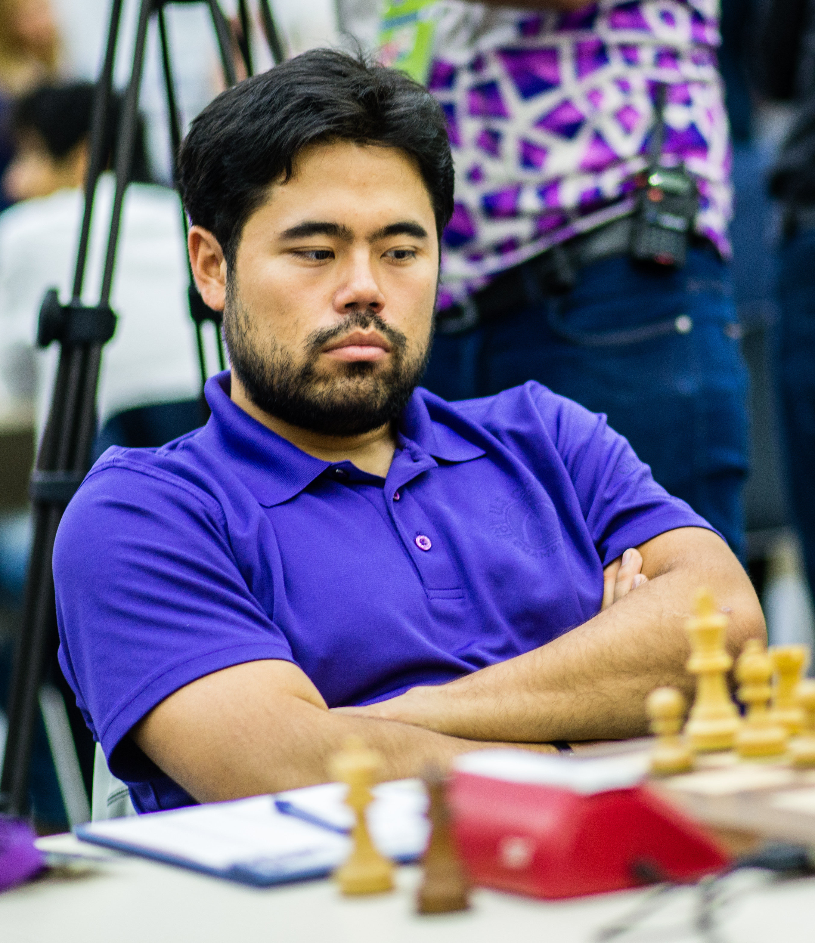 Hikaru Nakamura (2016)